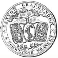 Line Drawing of 1842 shooting thaler of Graubünden (KM# 17)